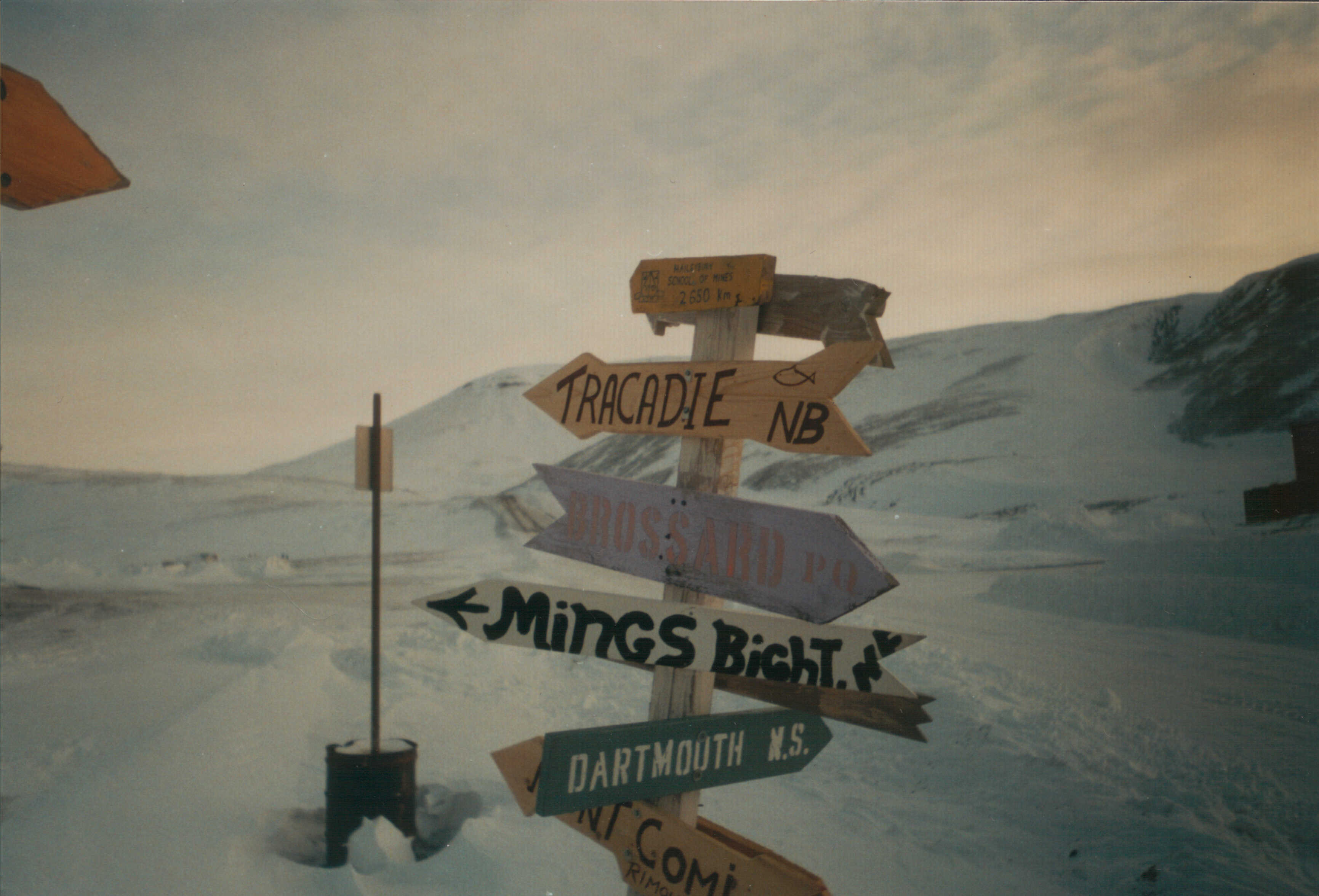 One of three sign posts in Nanisivik, Nunavut showing distances and/or directions to different places